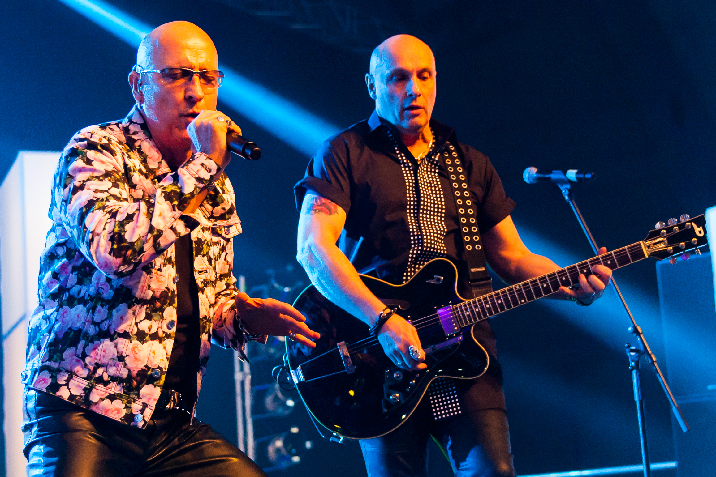 RPR1 90er Festival Maimarkthalle Mannheim Eloy, LayZee aka Mr. President, Nana, Right Said Fred, Snap! feat. Penny Ford during RPR1 90er Festival at Maimarkthalle, Mannheim, Baden-Württemberg, Germany on 2015-03-14, Photo: Sven Mandel